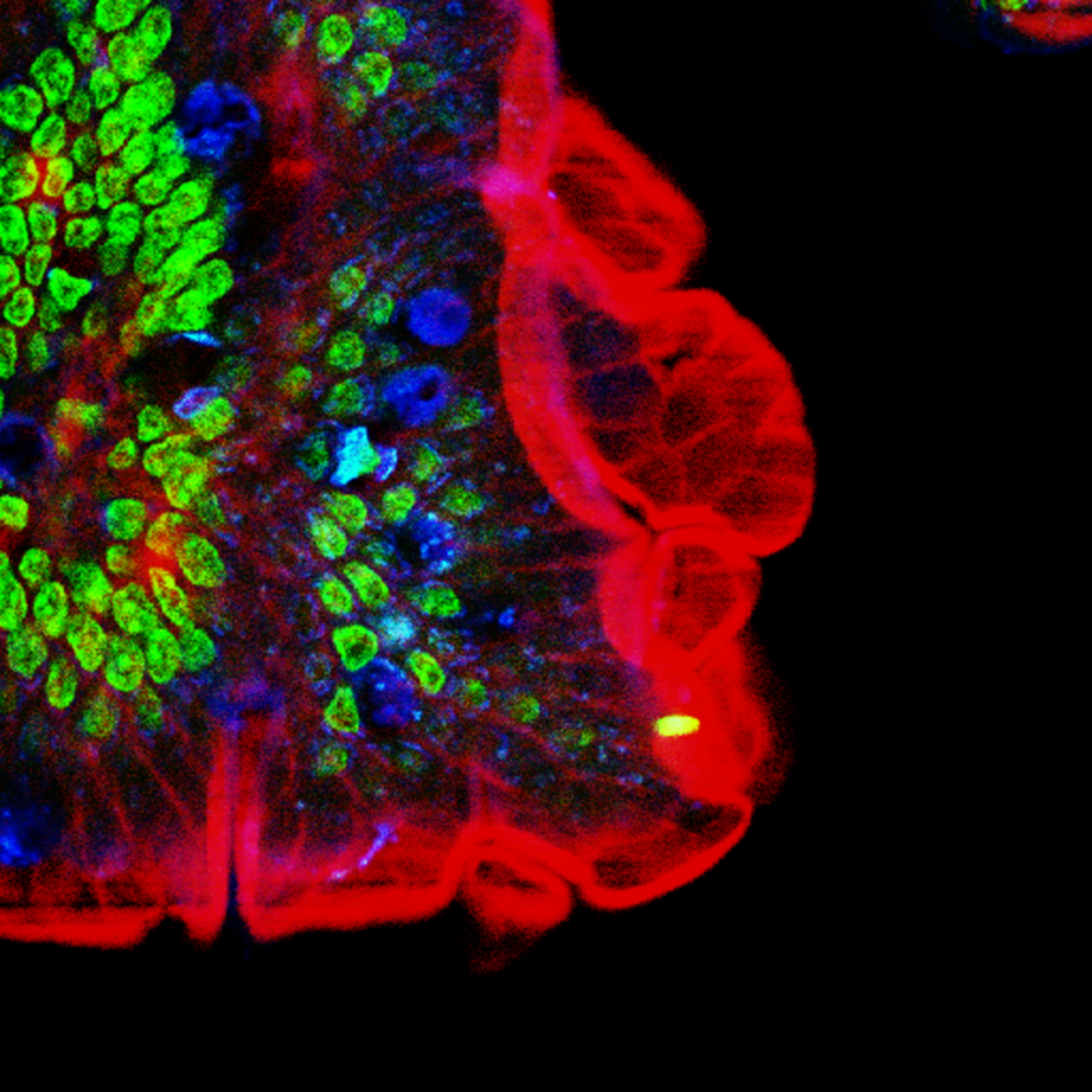 Original figure legend: Multiple fluorescence 2PE imaging. 2PE multiple fluorescence image from a 16 μm cryostat section of mouse intestine stained with a combination of fluorescent stains (F-24631, Molecular Probes). Alexa Fluor 350 wheat germ agglutinin, a blue-fluorescent lectin, was used to stain the mucus of goblet cells. The filamentous actin prevalent in the brush border was stained with red-fluorescent Alexa Flu or 568 phalloidin. Finally, the nuclei were stained with SYTOX ® Green nucleic acid stain. Imaging has been performed at 780 nm, 100 x 1.4 NA Leica objective, using a Chameleon XR ultrafast Ti-Sapphire laser (Coherent Inc., USA) coupled at LAMBS-MicroScoBio with a Spectral Confocal Laser Scanning Microscope, Leica SP2-AOBS.